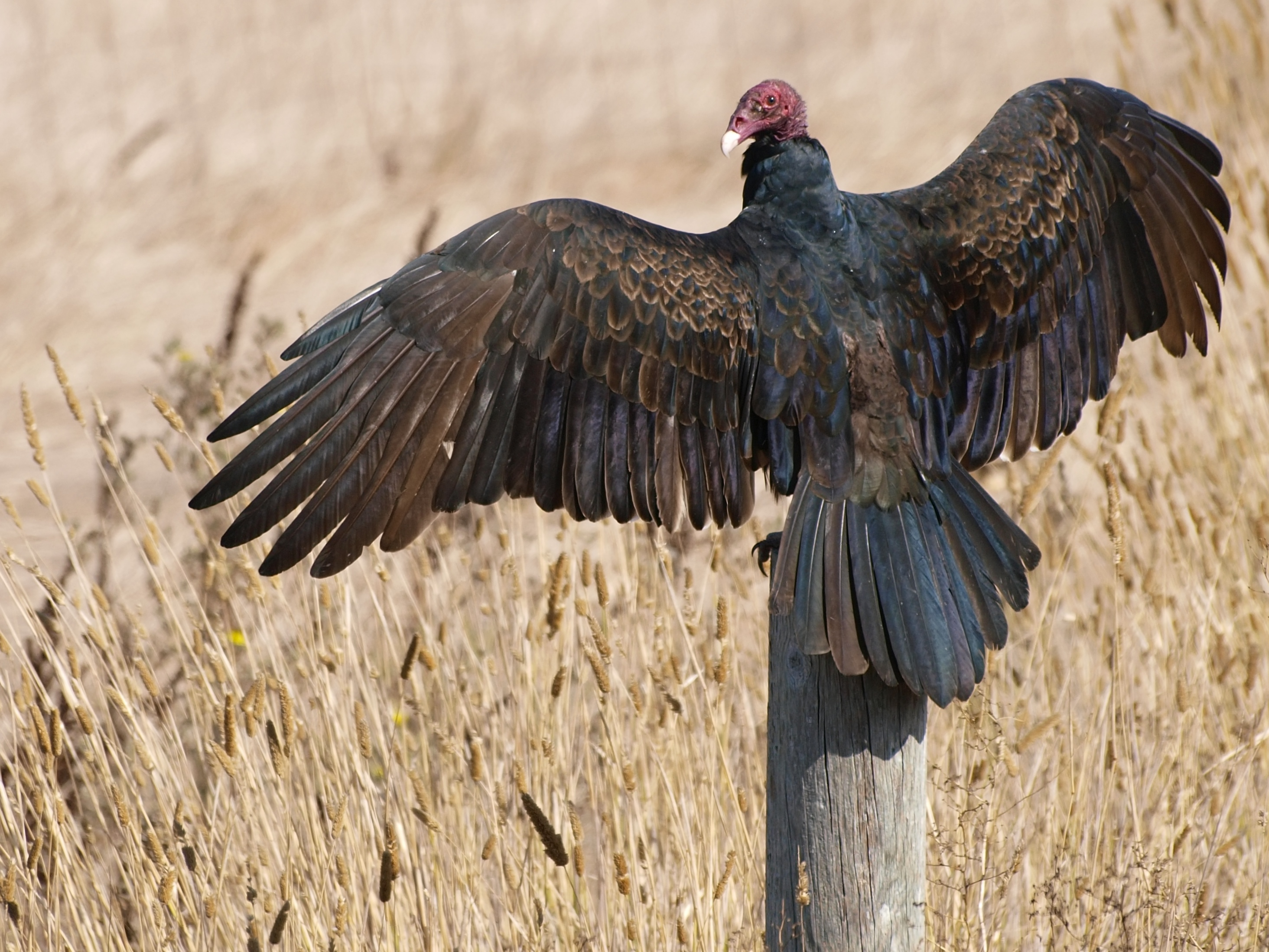 Turkey Vulture braves proximity to the trail to catch a few rays - Las Gallinas Wildlife Ponds in San Rafael, CA